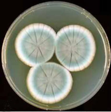 Penicillium rubens NRRL 792. A–C. Colonies 7 d old 25 °C. A. CYA. B. MEA. C. YES. D–H. Condiophores. I. Conidia. Bars =10 µm.